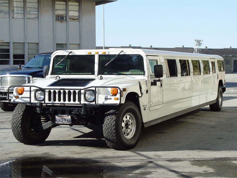 Hummer nonsense limousine in San Francisco